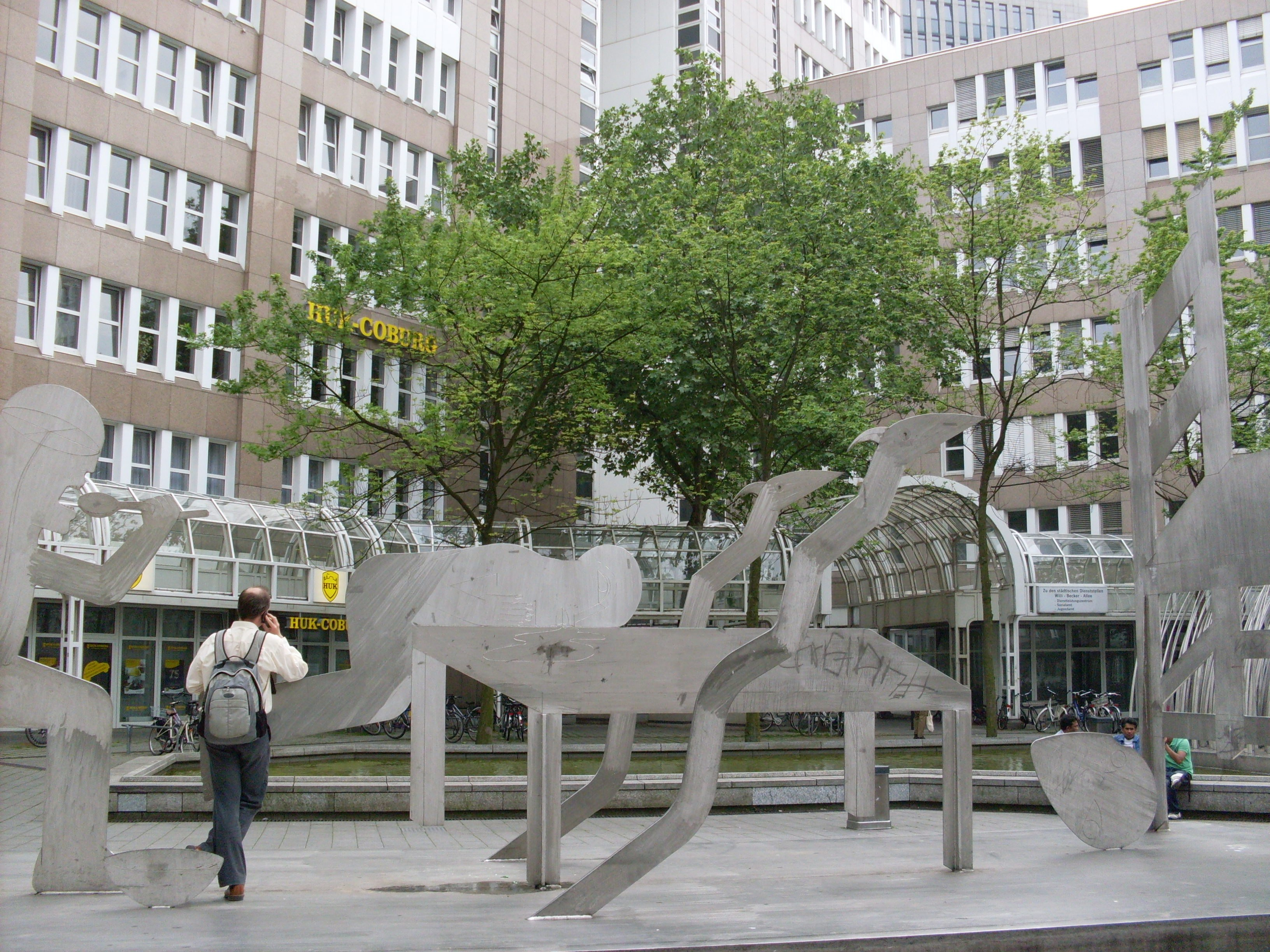 Düsseldorf-Oberbilk Bertha-von-Suttner-Platz Example of urban renewal, from steel mill to offices